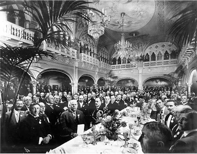 From an album entitled: Seattle Chamber of Commerce Business Men's Excursion to the Inland Empire, September 22-27, 1908 Printed on album page: Banquet at Davenport's in Spokane PH Coll 20.8 Subjects (LCTGM): Banquets--Washington (State)--Spokane Subjects (LCSH): Davenport Hotel (Spokane, Wash.); Dinners and dining--Washington (State)--Spokane; Hotels--Washington (State)--Spokane; Dining rooms--Washington (State)--Spokane